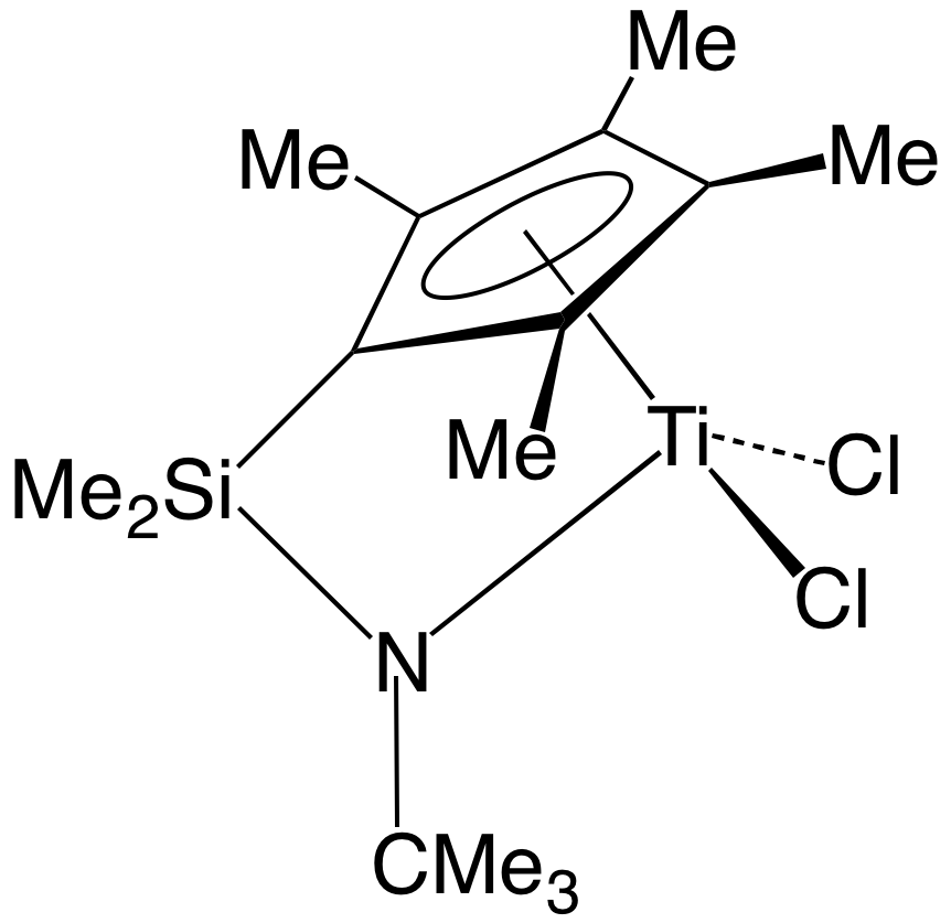 chemical structure of a constrained geometry complex